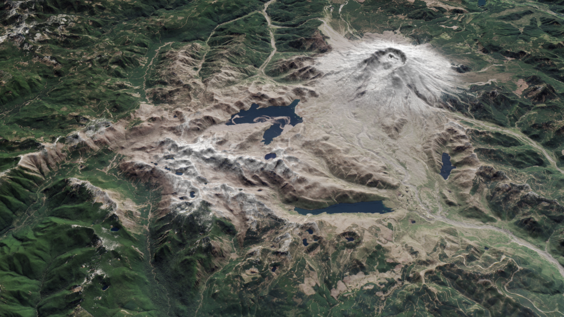 35 years later after the May 18, 1980 eruption. The image shows a three-dimensional view of the mountain, looking toward the southeast, as it appeared on April 30, 2015. The image was assembled from data acquired by the Operational Land Imager on Landsat 8 and the Advanced Spaceborne Thermal Emission and Reflection Radiometer (ASTER) on Terra.